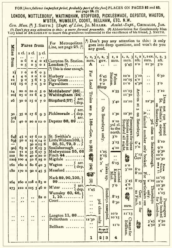 Punch mock railway timetable 19 Aug 1865, p. 64